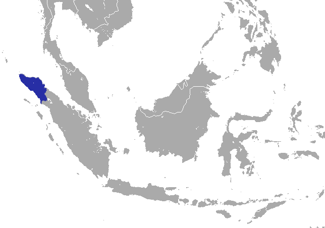 Thomas's Langur (Presbytis thomasi) range